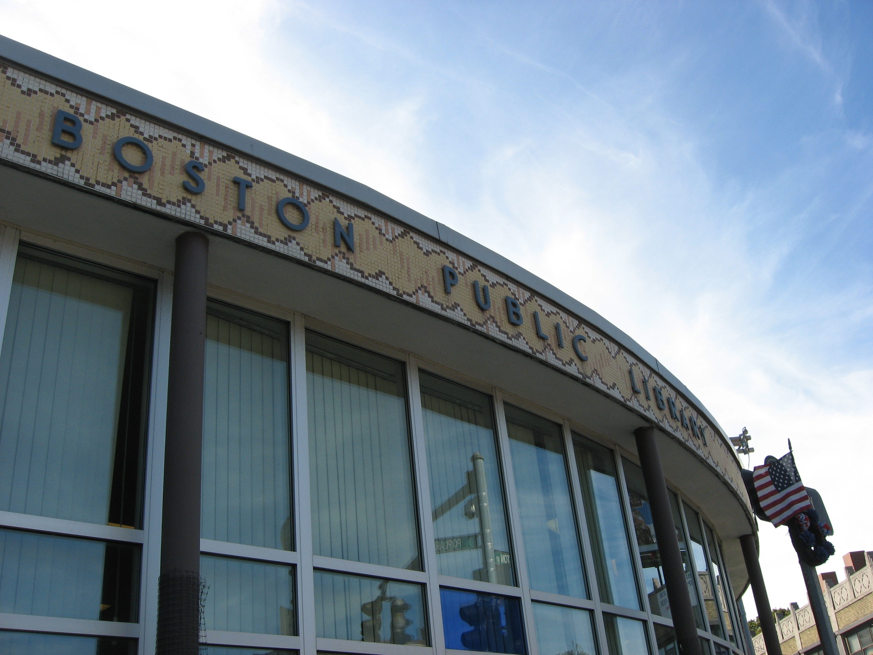 Roslindale branch, Boston Public Library